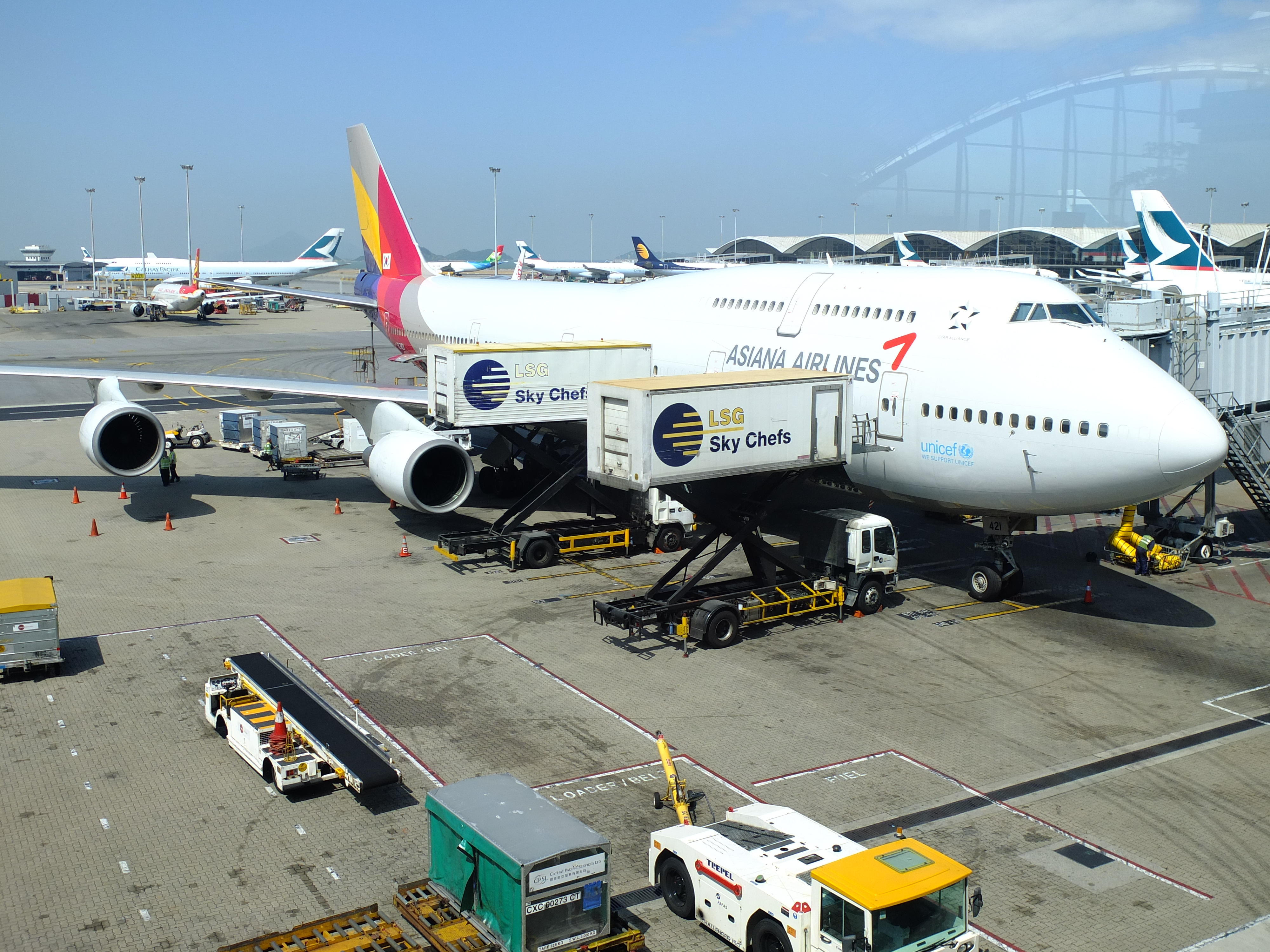 Photo showing two Aircraft Catering Vehicle serving an aircraft